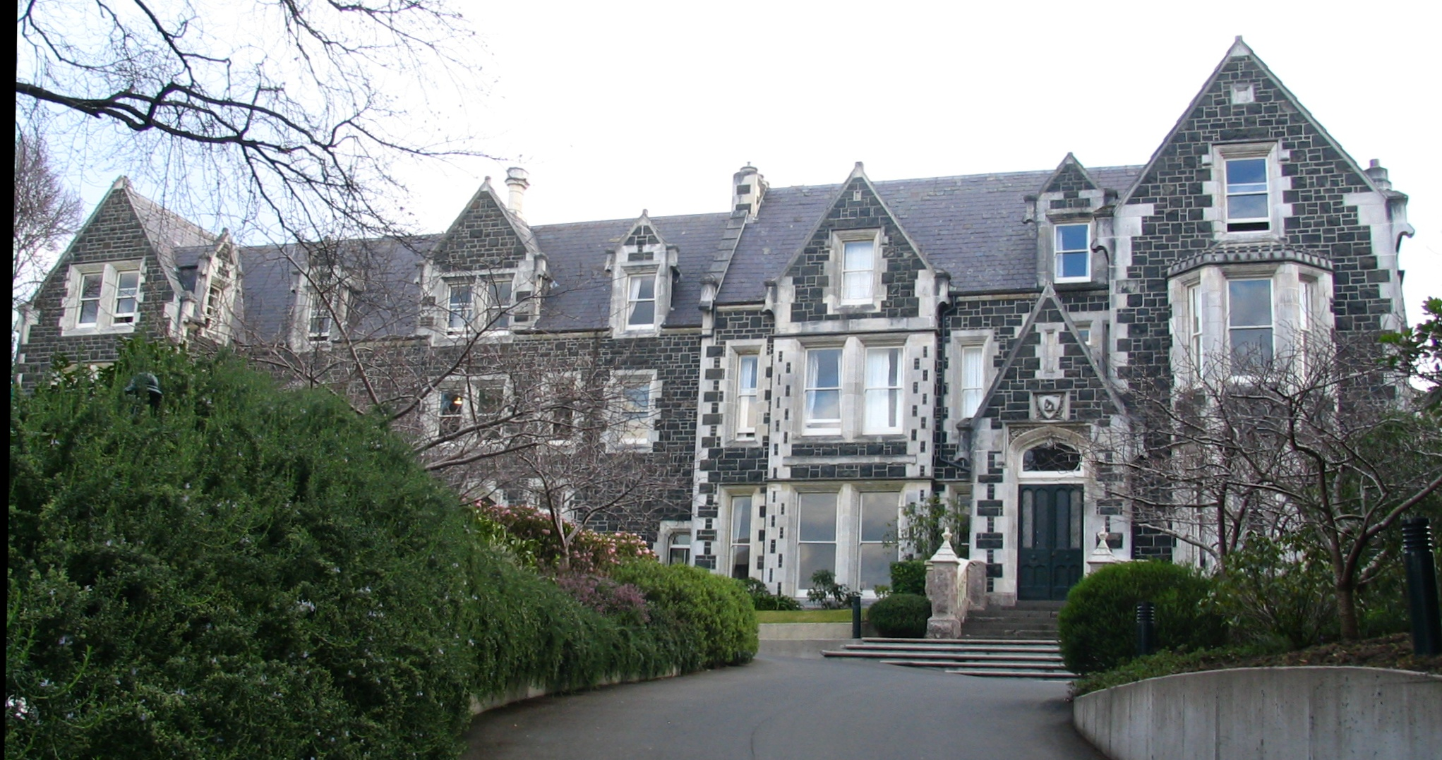 Bishopscourt historic building at Columba College, Dunedin, New Zealand. NZHPT Register Number: 2147